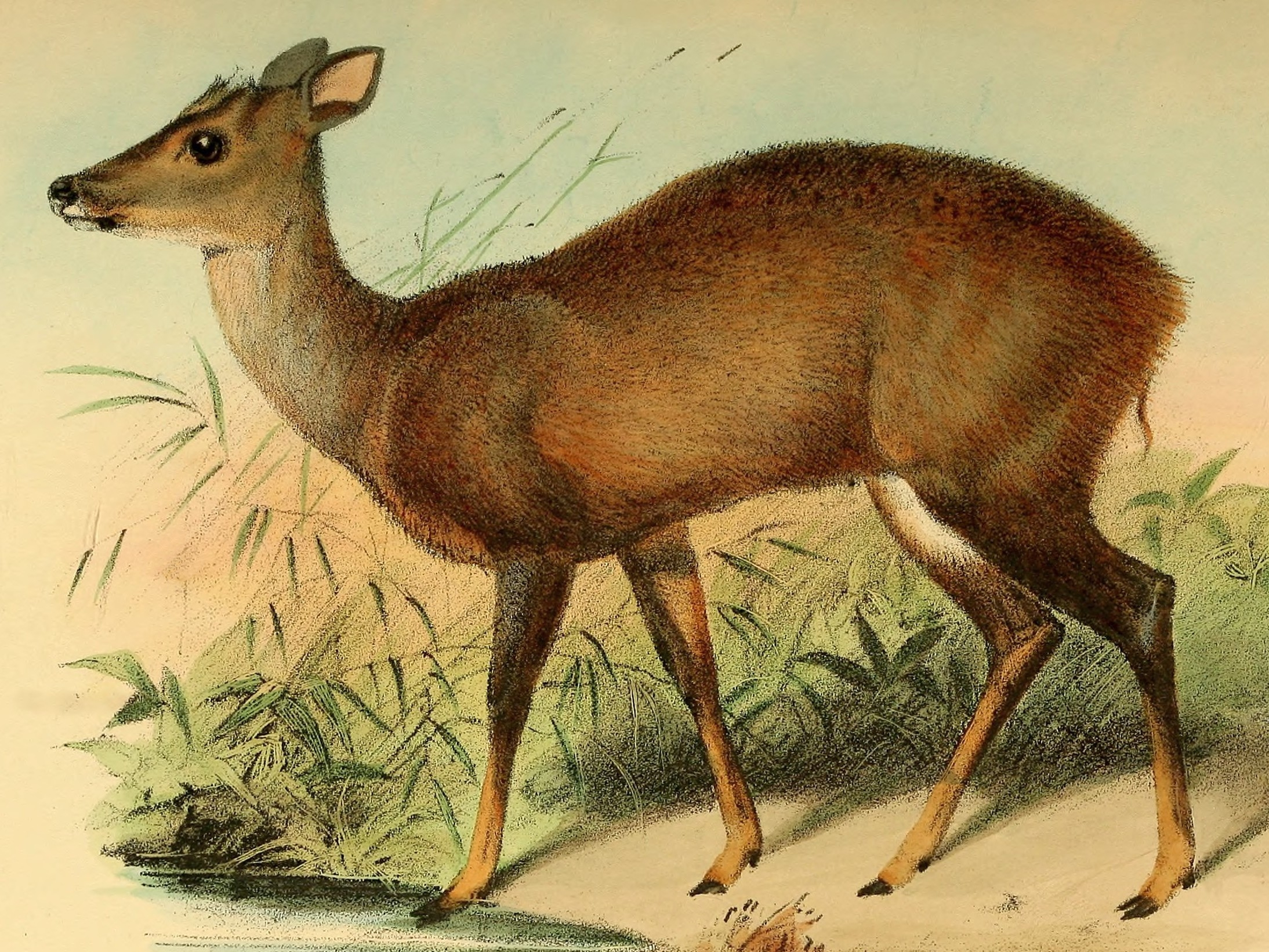 Amazonian Brown Brocket buck from Knowsley Hall menagerie, 1850